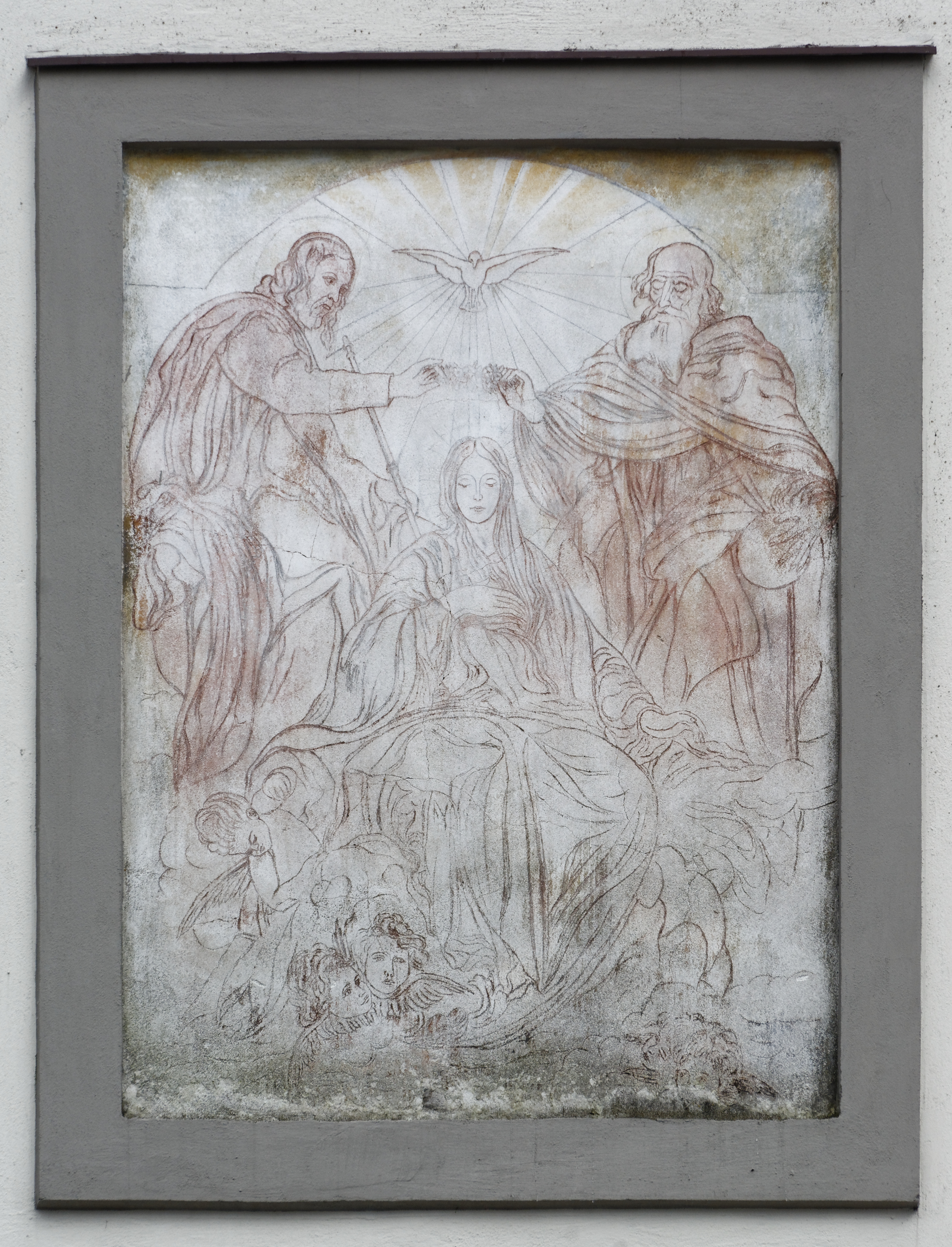 Church of Saint Catherine (Volary), Coronation of the Virgin Mary, fresco by Josef Hošna (2000).